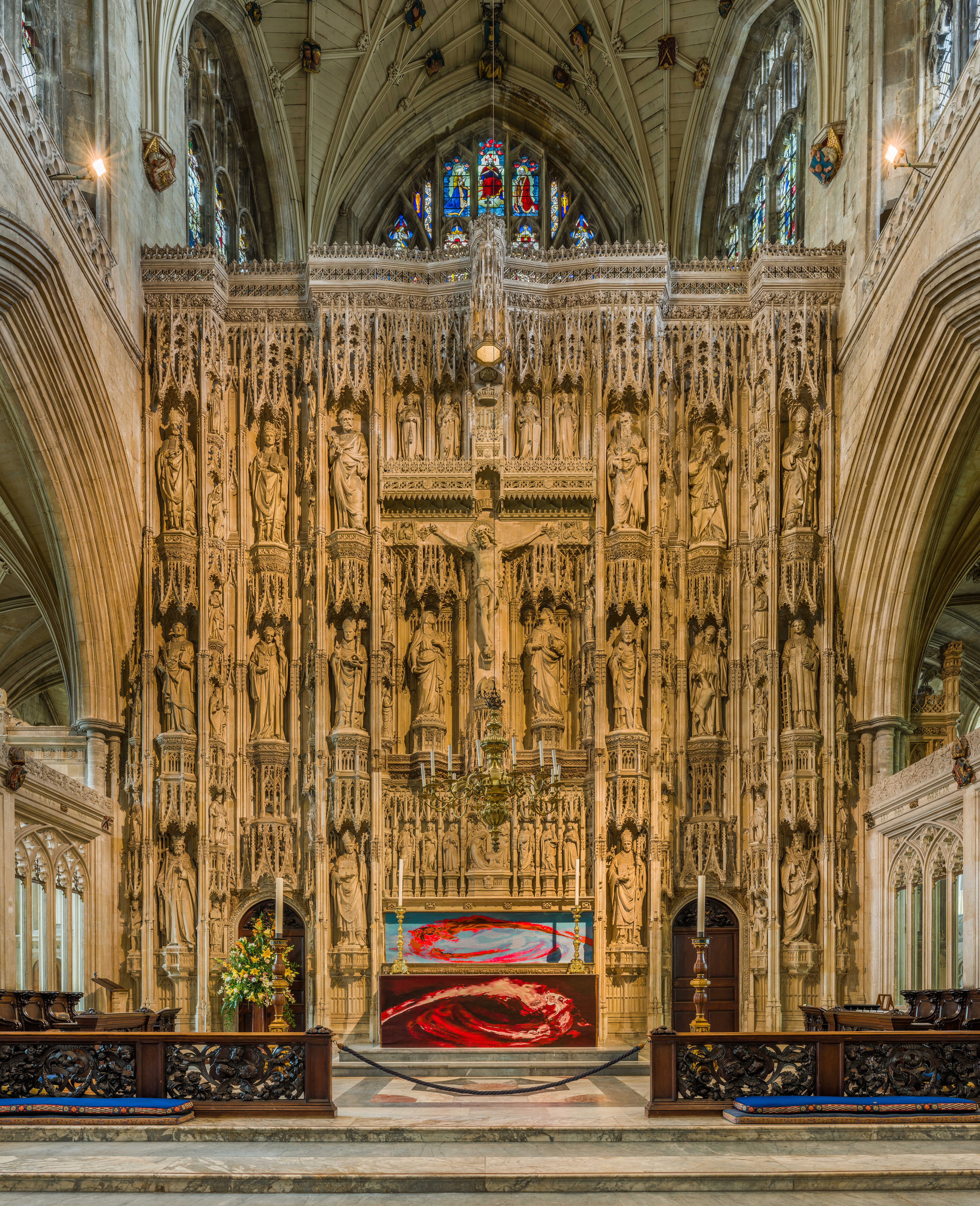 The High Altar of Winchester Cathedral in Hampshire, England.